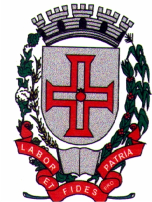 Coats of arms of Nova Granada, state of SP, Brazil